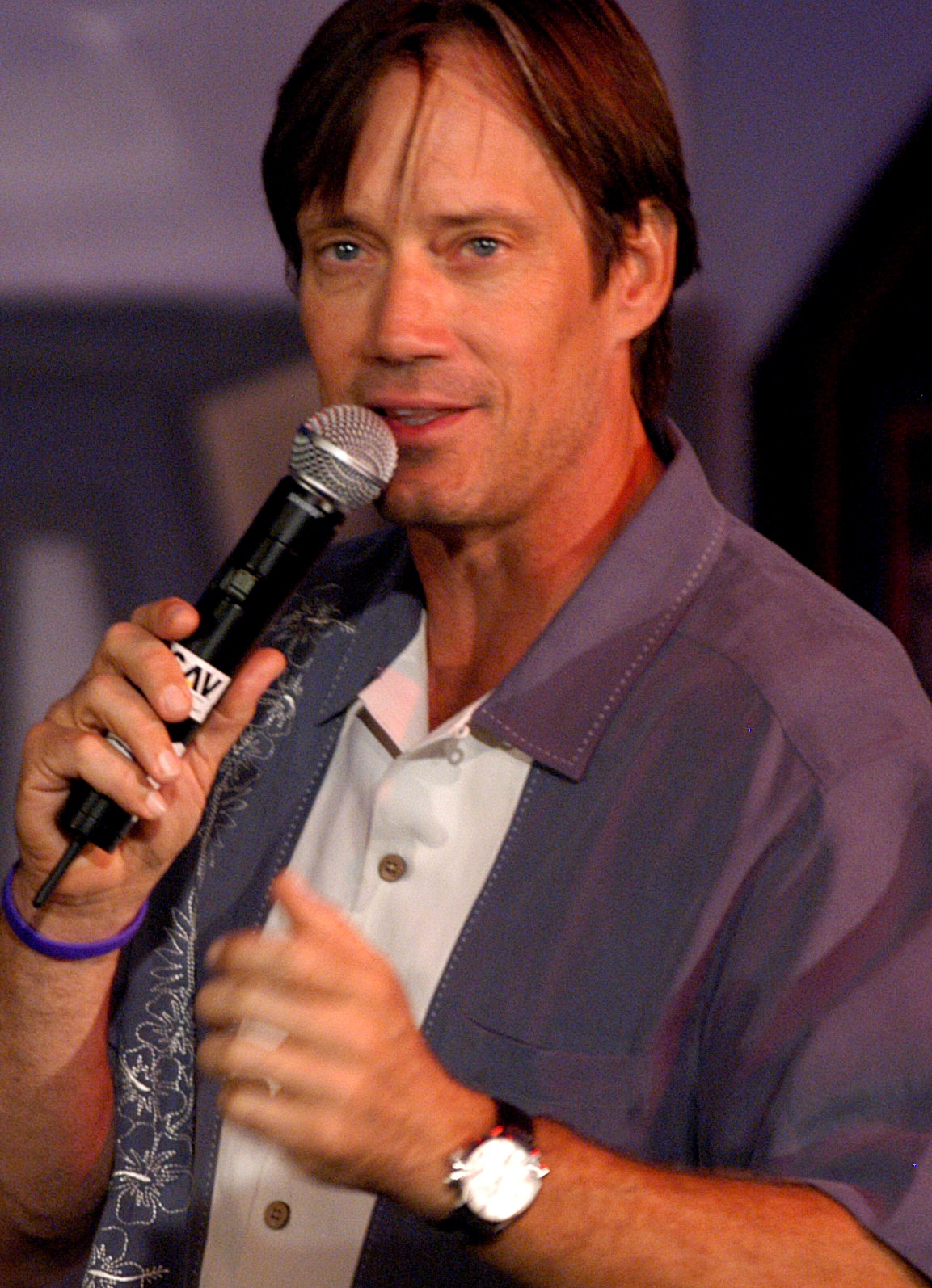 Kevin Sorbo at the Gatecon 2005.